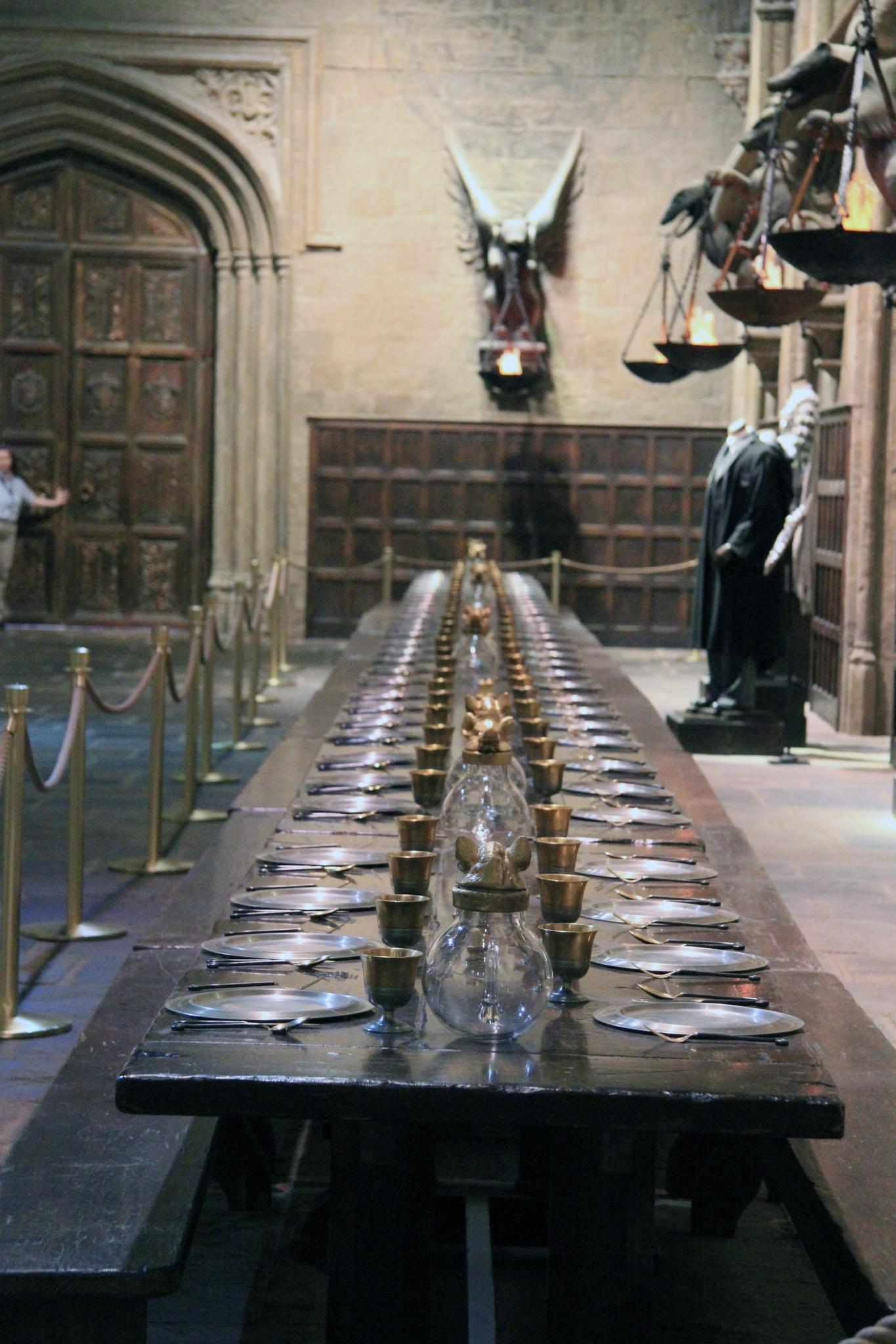 Warner Bros. Studio Tour London: The Making of Harry Potter.